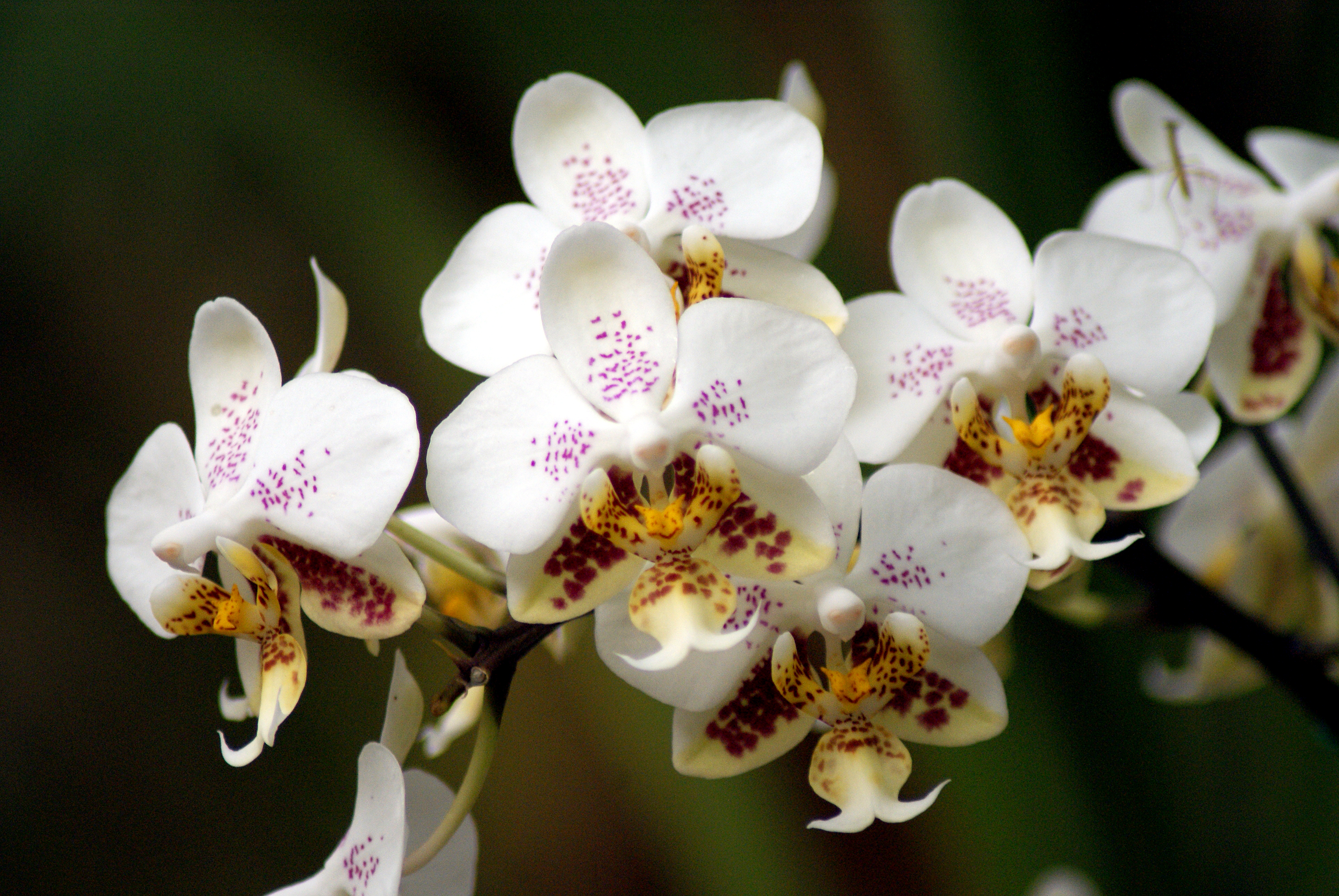 Phalaenopsis stuartiana "Sogo" HCC/AOS